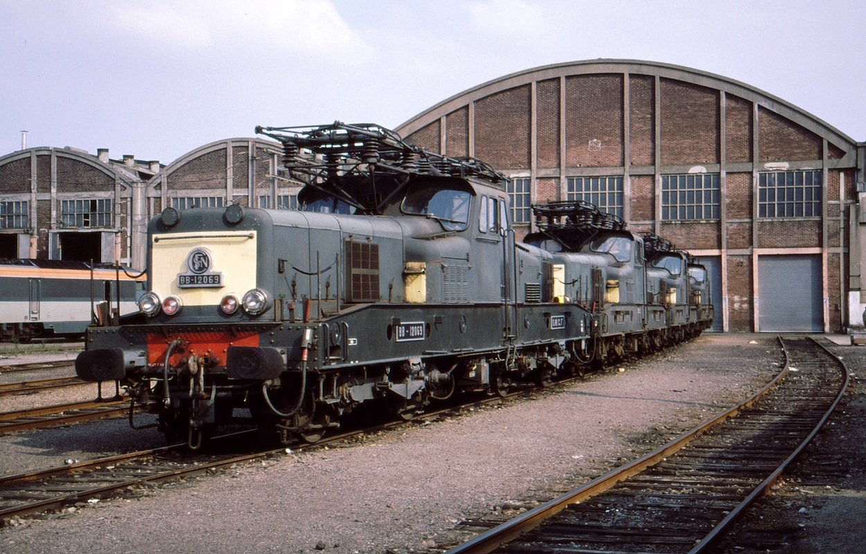 The real BB-12069 at the end of her active life. Luckily she's still lives a museumpiece. The BB-12000 are according to me victims of the ridiculous millenium bug. I want to see her again...